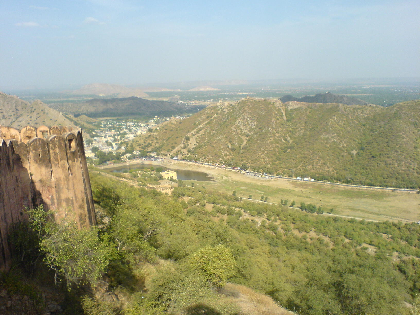 View of the valley from Jaigarh Fort outside Jaipur in Rajasthan, India.